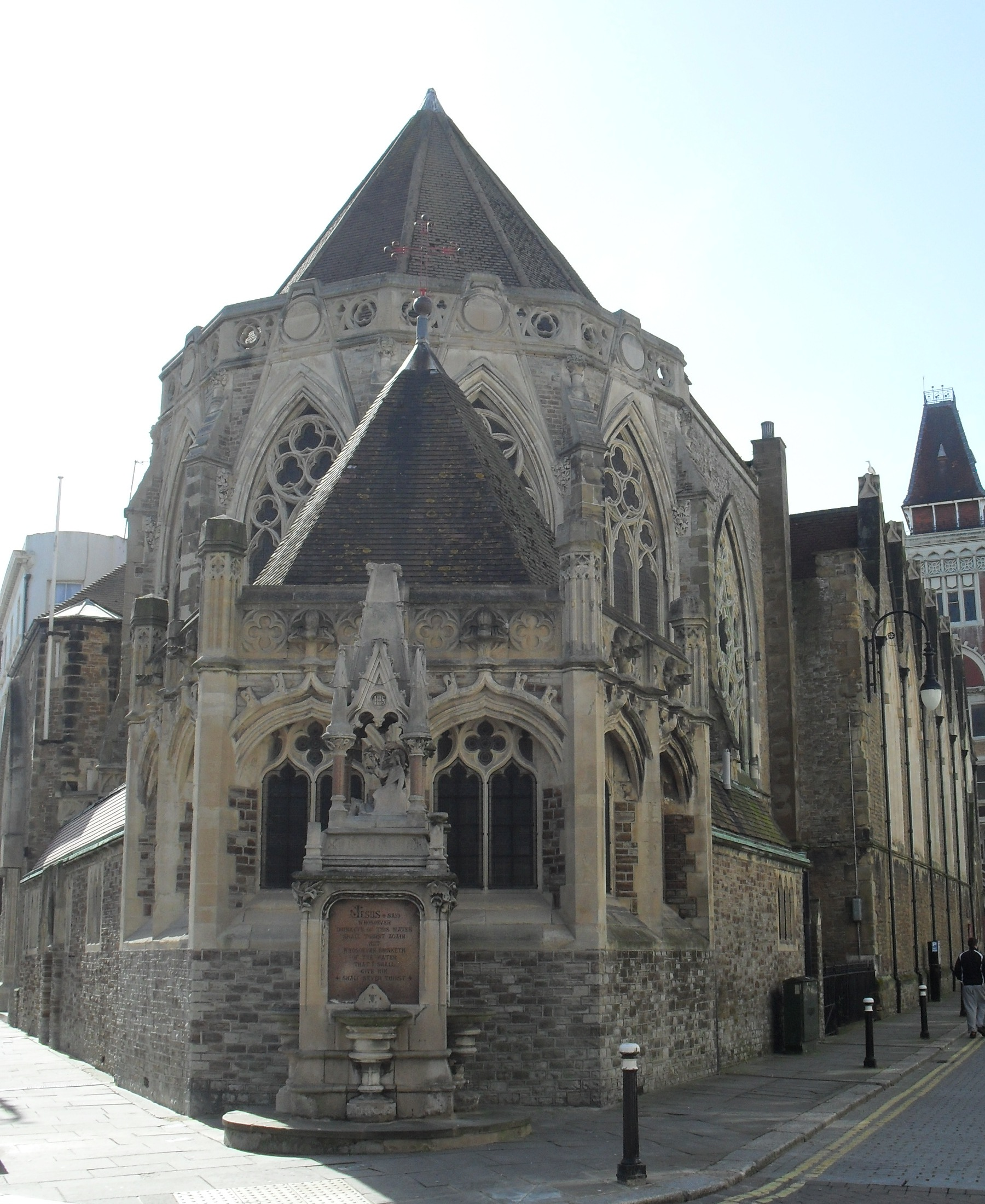 East end of Holy Trinity Church, Robertson Street, Hastings, East Sussex, England. Built between 1857 and 1862 by S.S. Teulon on a difficult site in the town centre. The interior is opulently decorated. Listed at Grade II* by English Heritage (IoE Code 294055)